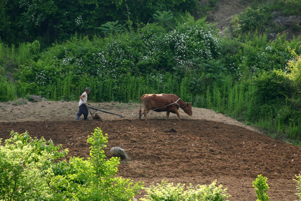 A rural scenery of Gyeongsangbuk-do, South Korea on May 26, 2007.